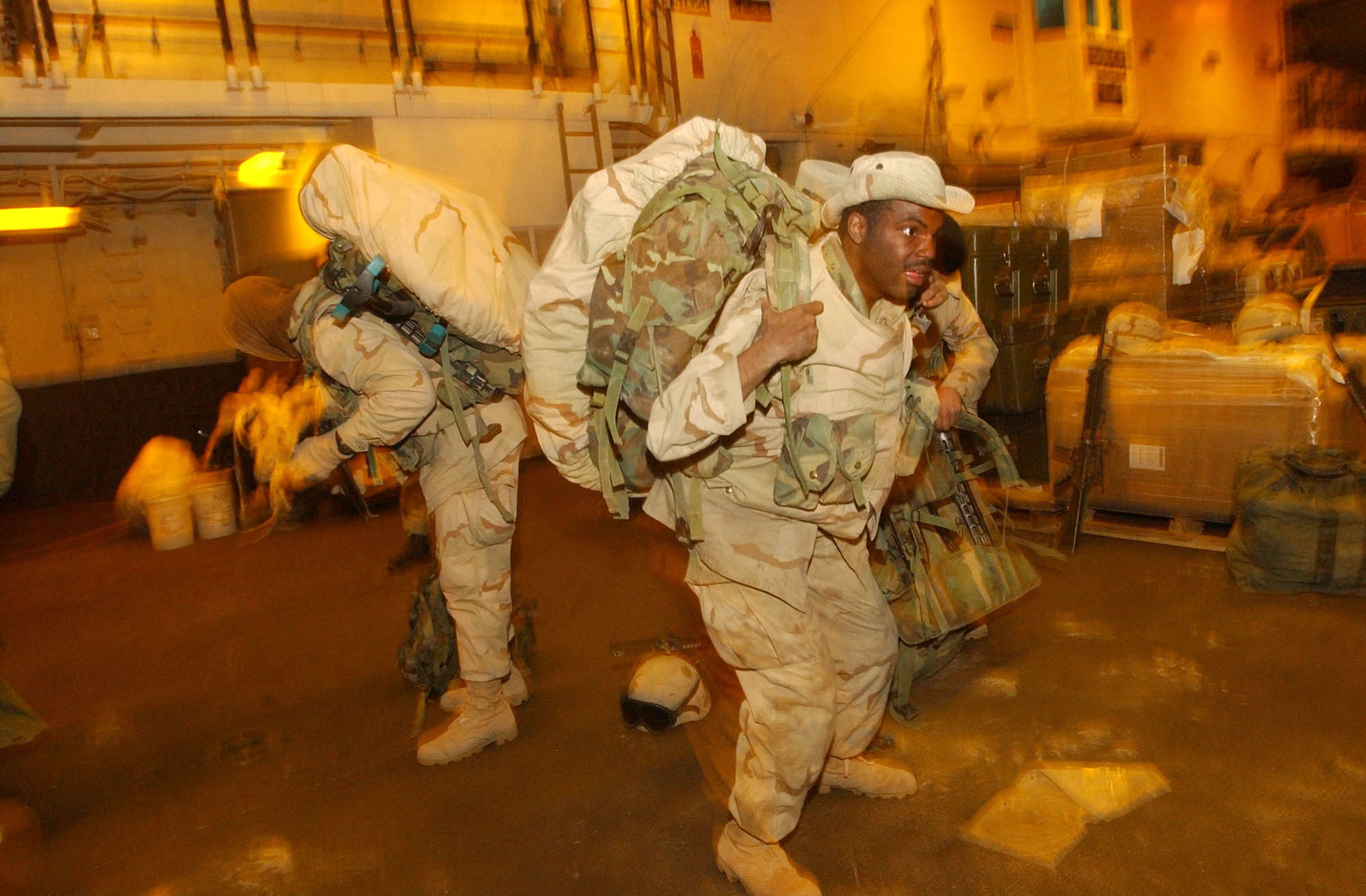 020122-N-2383B-506 At sea aboard USS Bataan (LHD 5) Jan. 22, 2002 -- U.S. Marines from 26th Marine Expeditionary Unit (Special Operations Capable) return to the amphibious command ship USS Bataan after a successful ground campaign in Afghanistan. The Bataan Amphibious Ready Group is operating in support of Operation Enduring Freedom. U.S. Navy photo by Chief Photographer's Mate Johnny Bivera. (RELEASED)